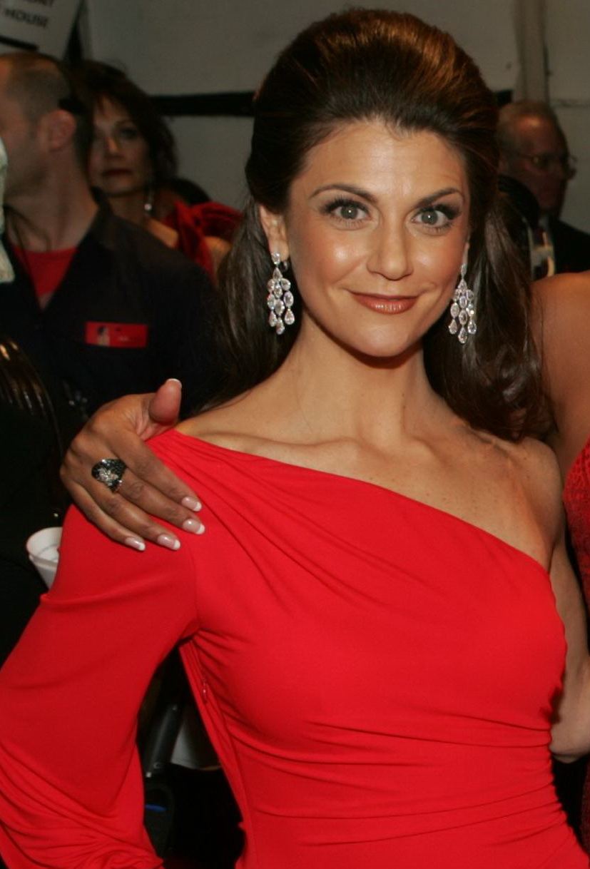 Samantha Harris back stage at the 2009 Heart Truth fashion show